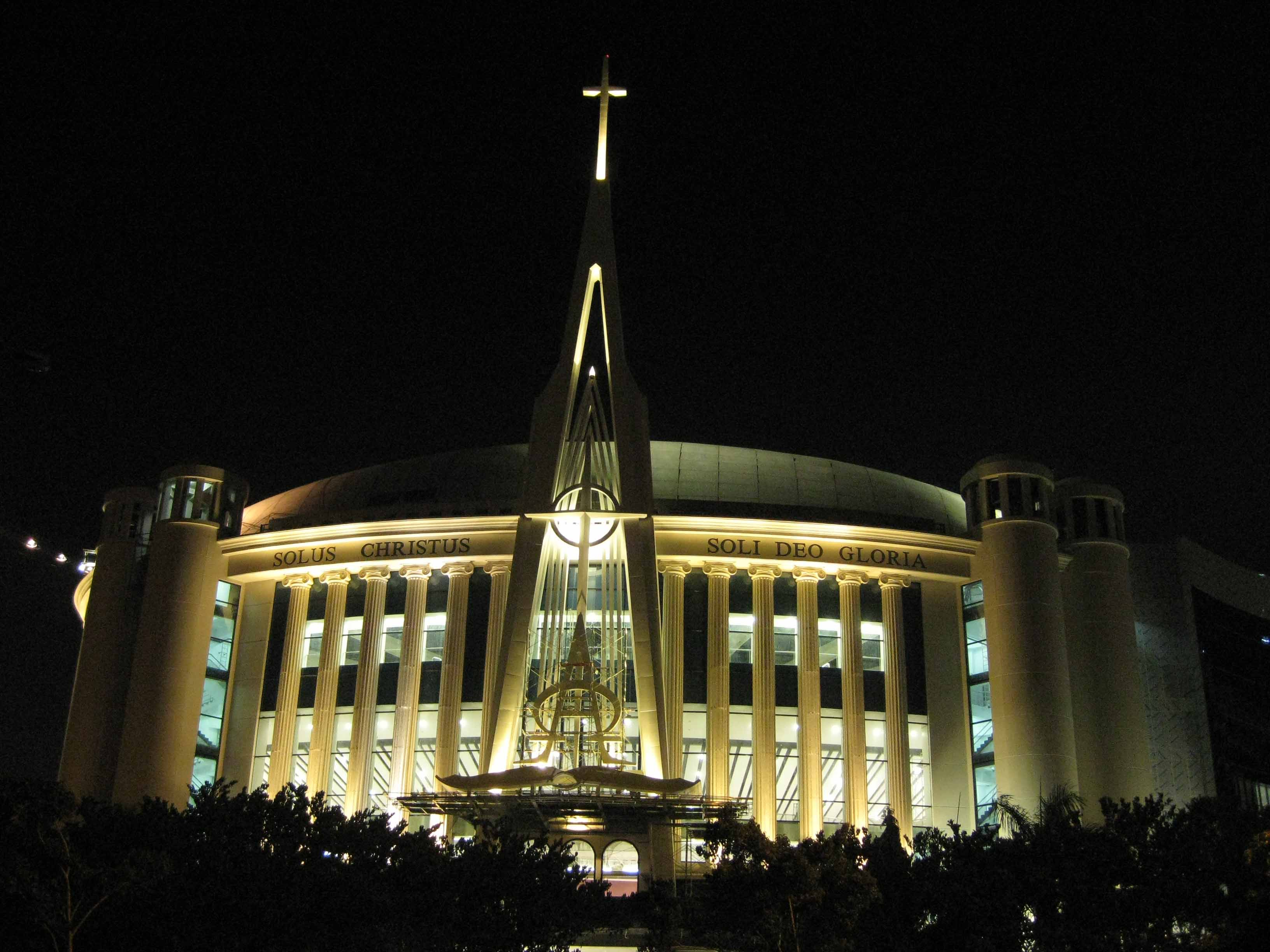 Front in Night.